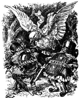 British cartoon about the Greco-Bulgarian war of 1925, portraying Greece and Bulgaria as Tweedle-dum and Tweedle-dee from Alice in Wonderland, with the League of Nations portrayed as a dove of peace.